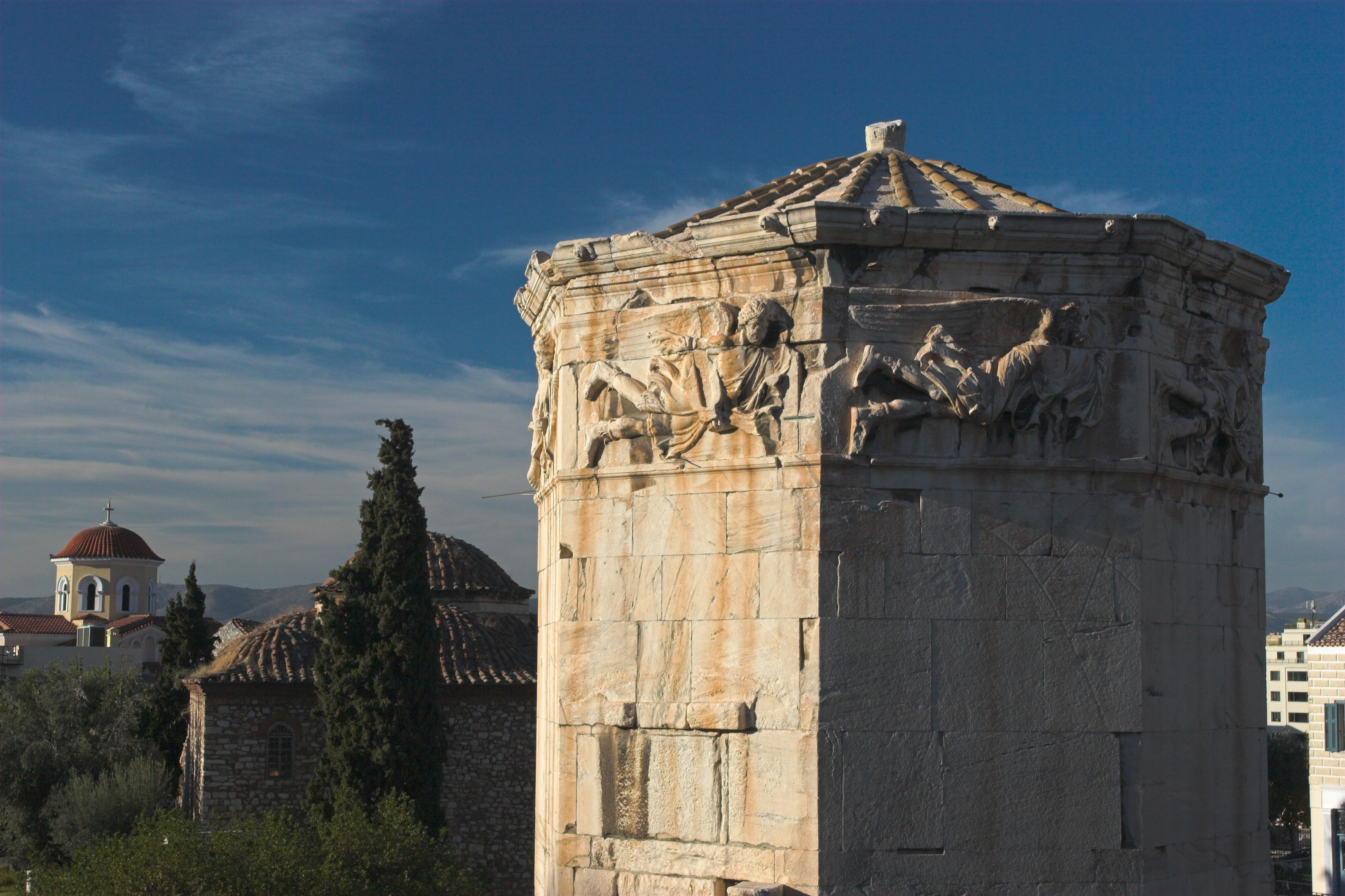 Picture of Tower of Winds in Athens. Photo bt Thermos.